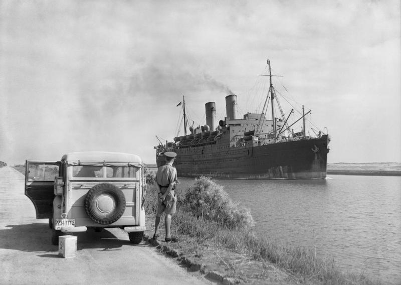 The Campaign in the Middle East and North Africa SS DUCHESS OF BEDFORD passing through the Suez Canal after delivering troops to Egypt, 5 October 1940.